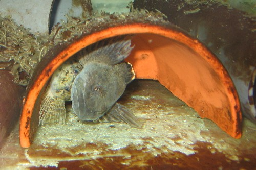 A spawning pair of Alpine bullhead (Cottus poecilopus)